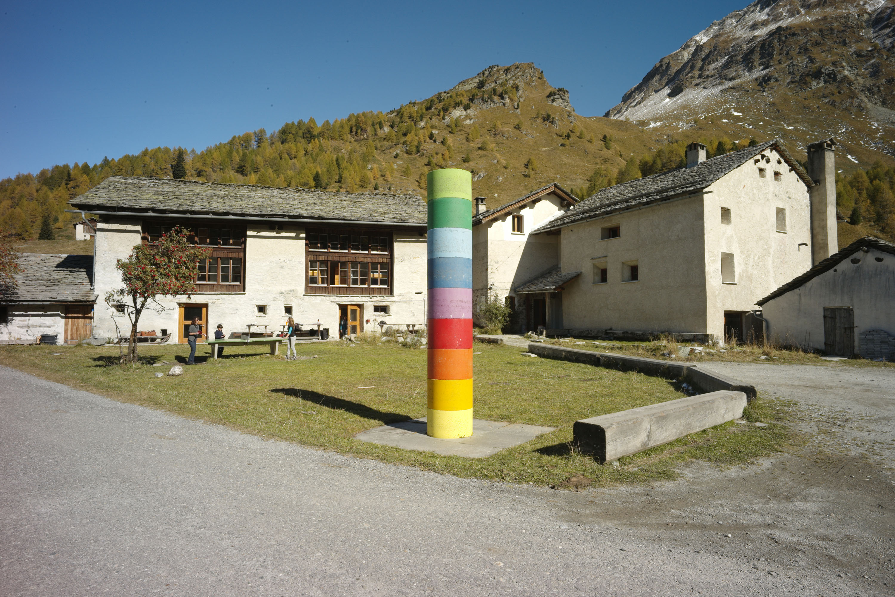 Salecina, view from the South